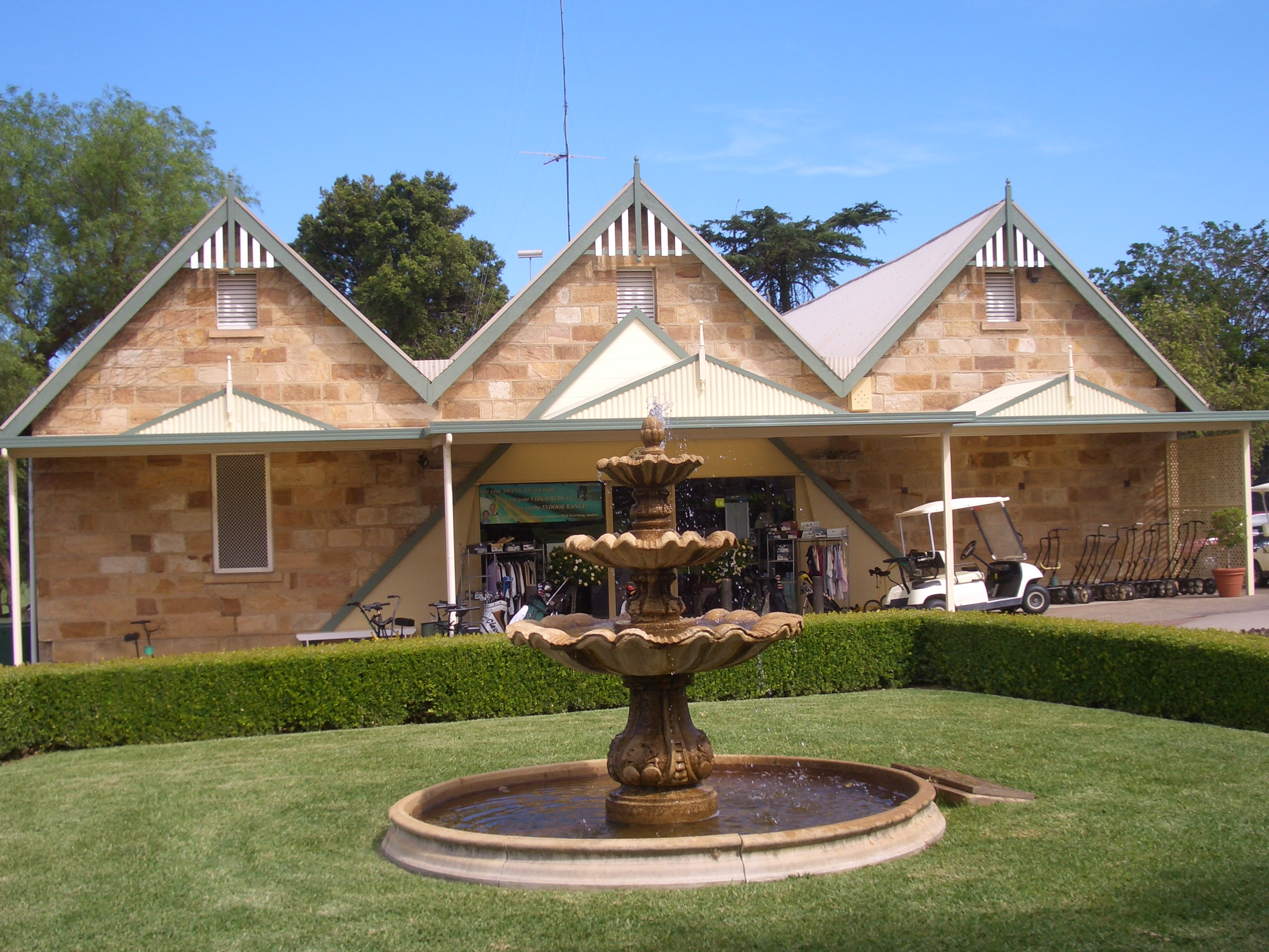 Oatlands Golf Course